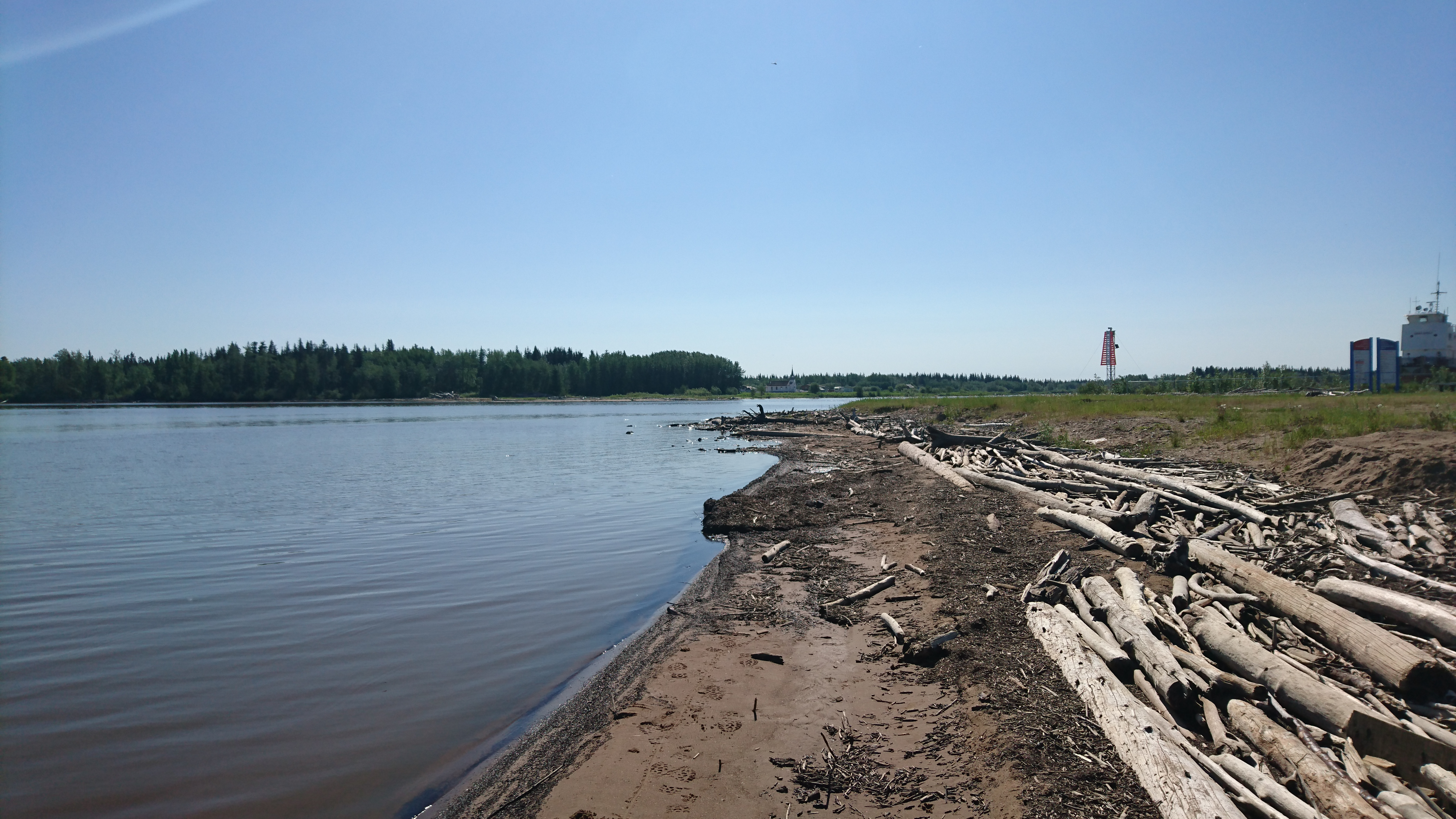 General views of the Hay River beach with Great Slave Lake in the background. A popular swimming spot.